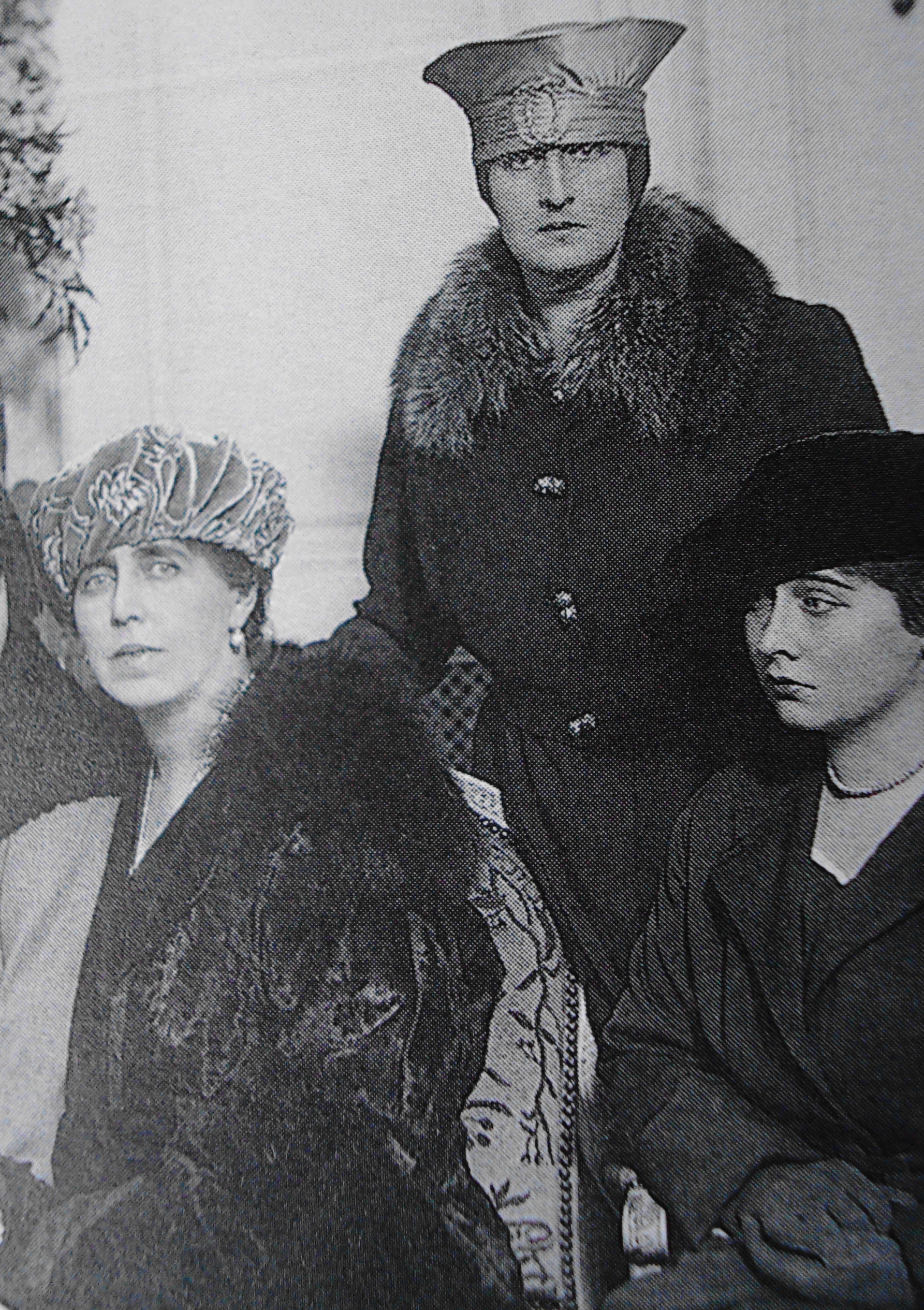 Marie of Edinburgh with Elisabeth of Romania and Maria of Romania.